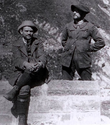 Oskar Hug (left) and Casimir de Rham 1910 in caucasius mountains